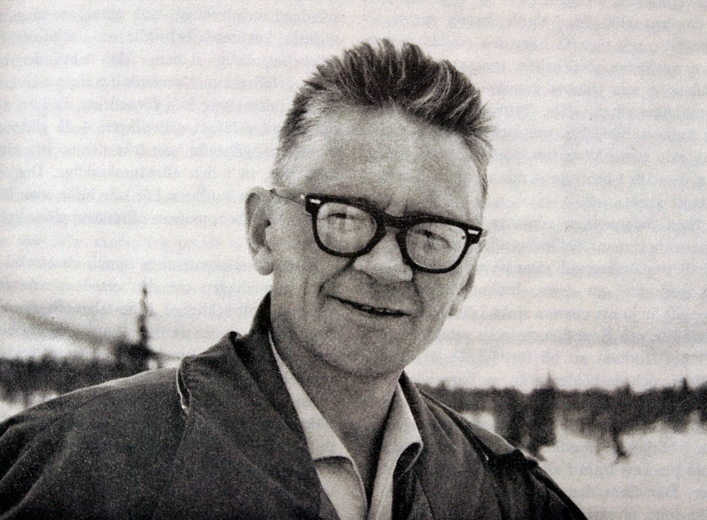 A portrait of the author and politician Per Olof Sundman.